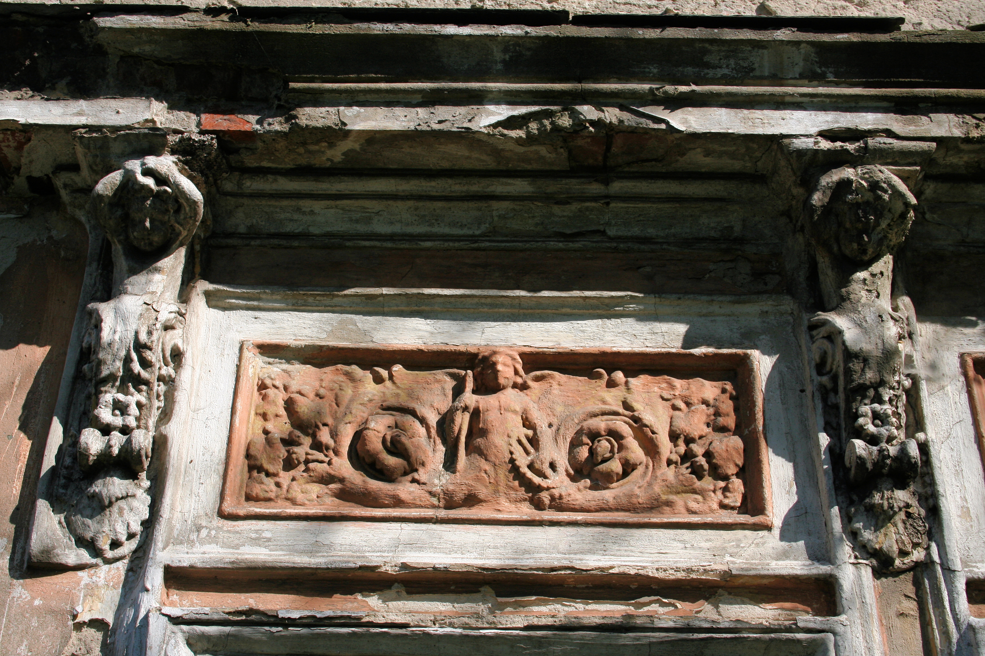 Palace in Grzymiradz